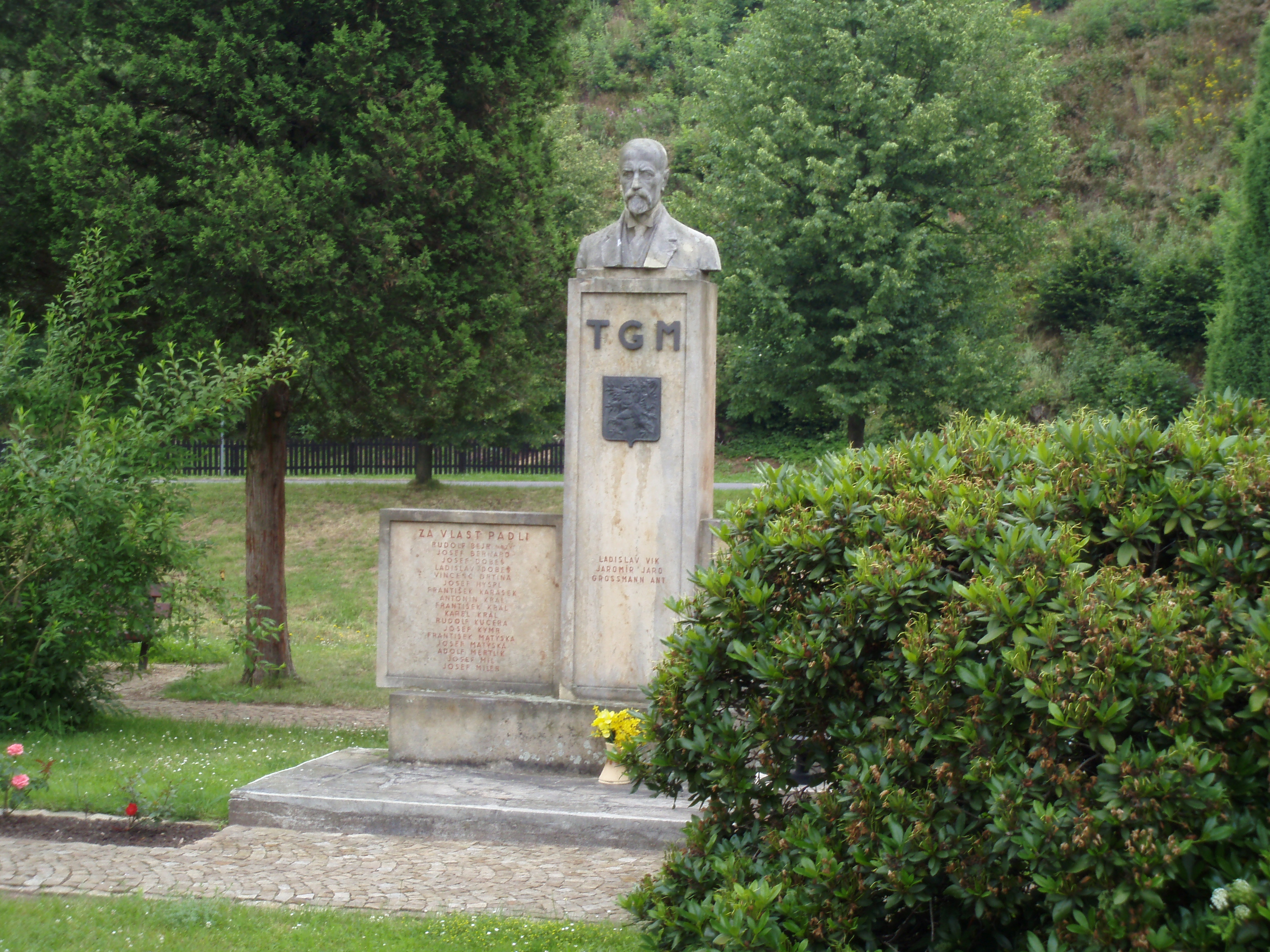 World War memorial with bust of first Czechoslovak president T. G. Masaryk in Havlovice (CZ)